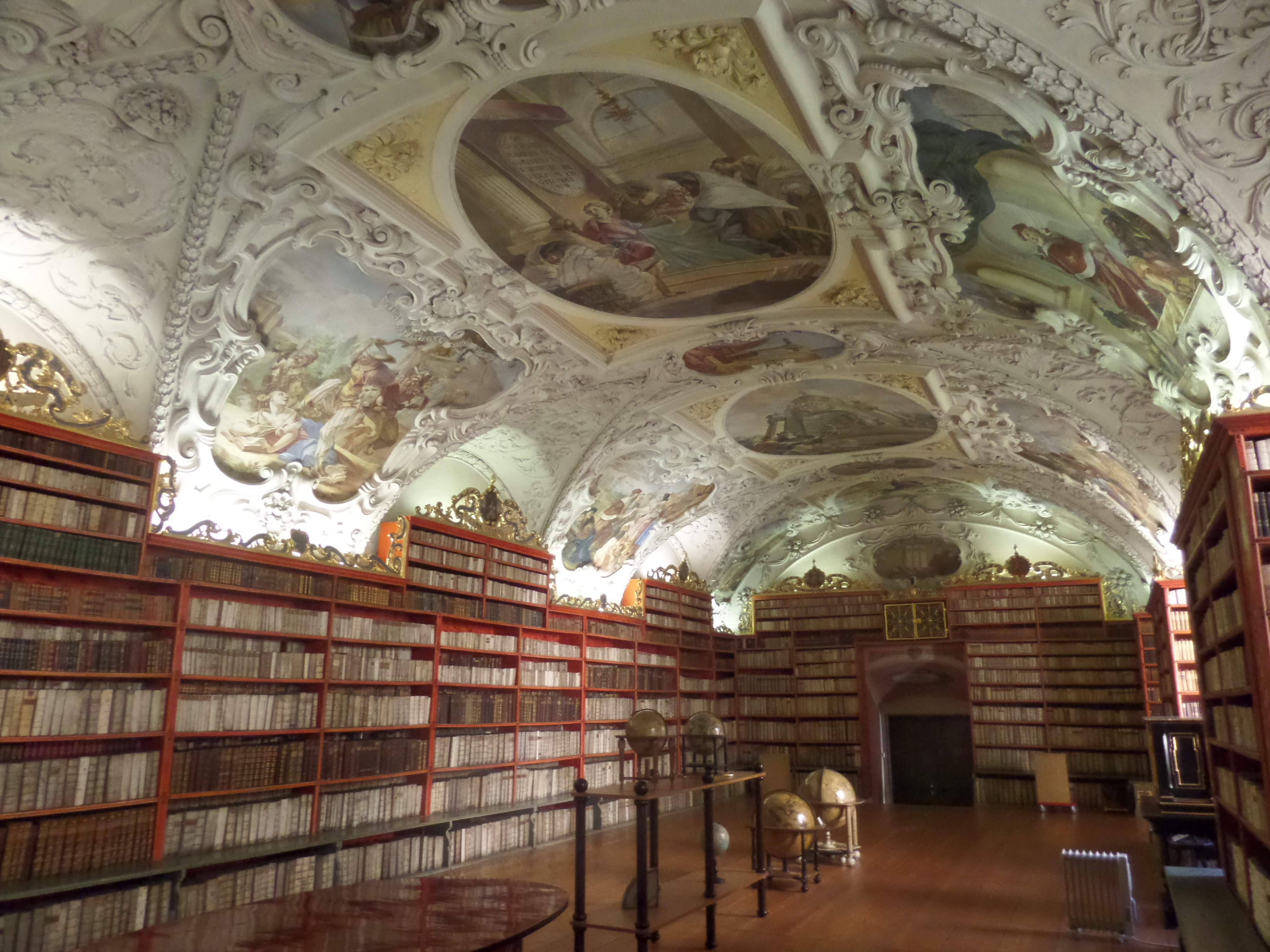 Interior of Strahov Monastery library, Prague, Czechoslovakia